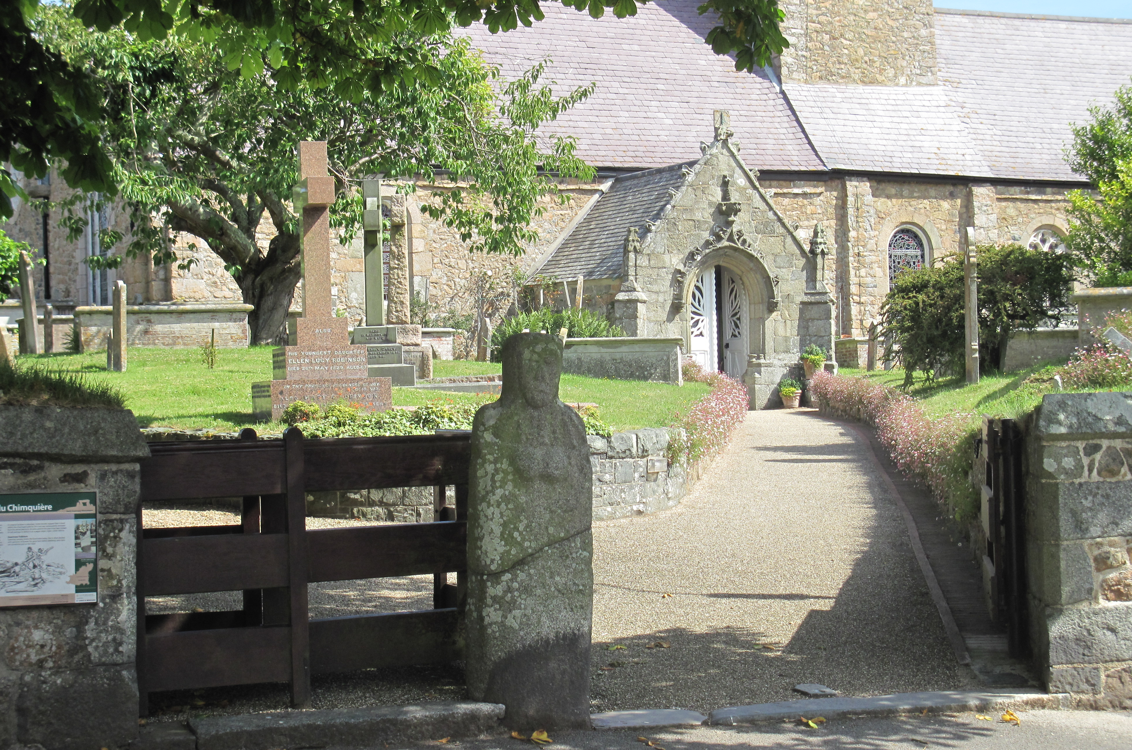 Guernsey, June-July 2011: the parish church at St. Martin